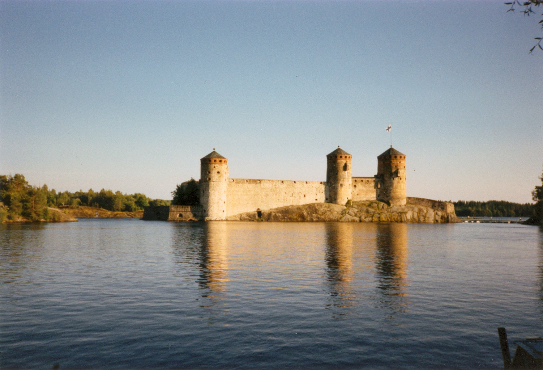 Olavinlinna Castle, Finland in 1989